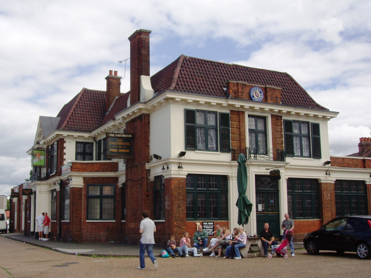 A locals' pub just north of Dagenham East station, but noted for its beautifully kept 1930s decor. Address: Dagenham Road. Links: Randomness Guide to London Fancyapint Pubs Galore Beer in the Evening CAMRA National Inventory